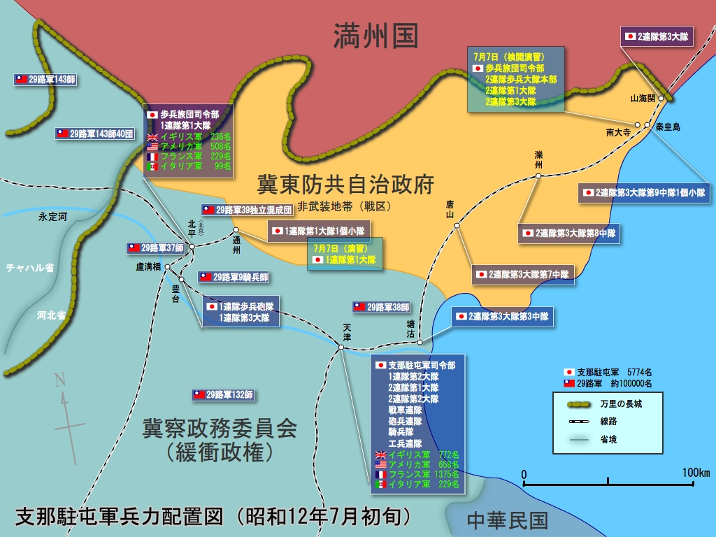 Marco Polo Bridge Incident Army Position